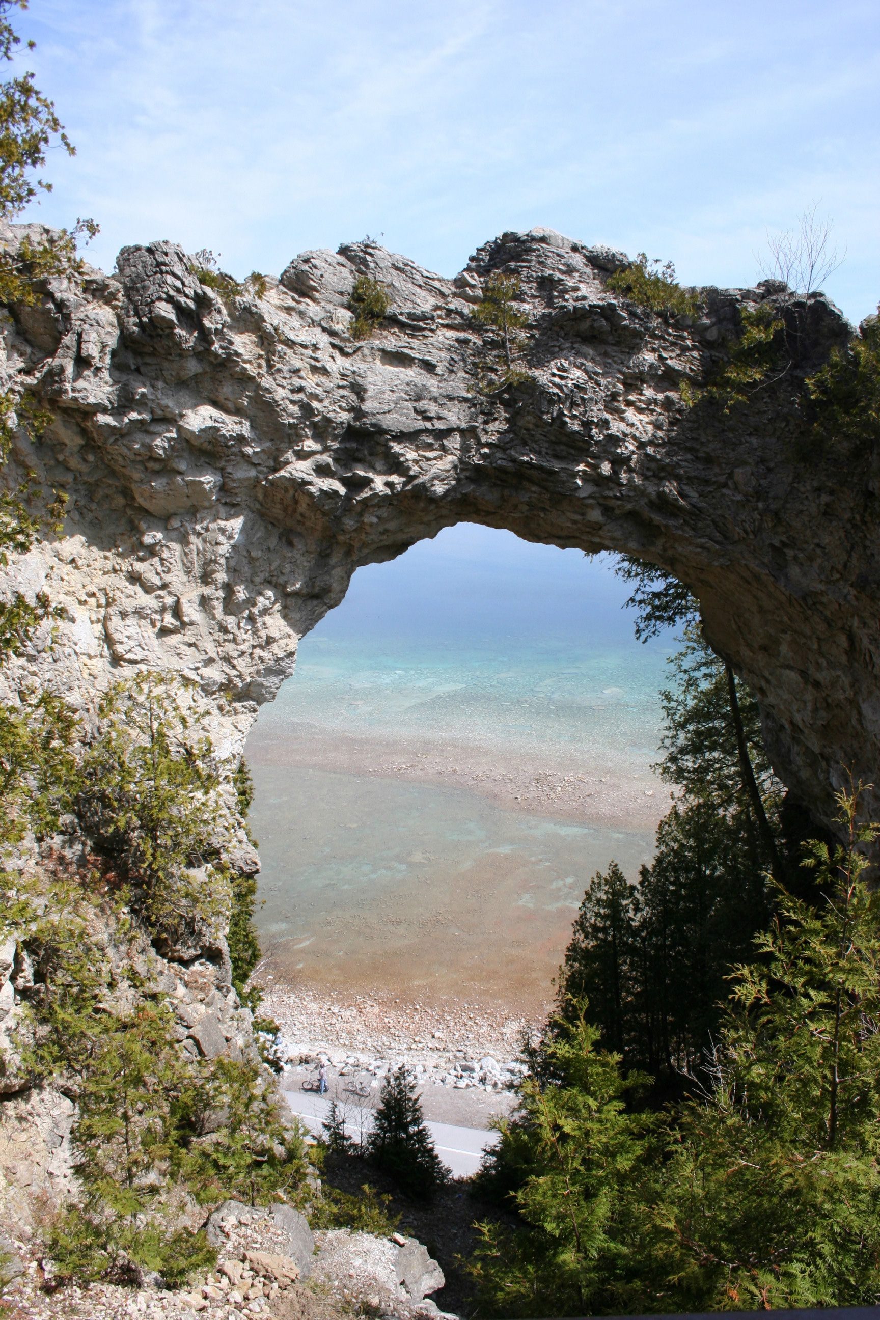 A picture of the Arch Rock geologic formation on Mackinac Island, Michigan.